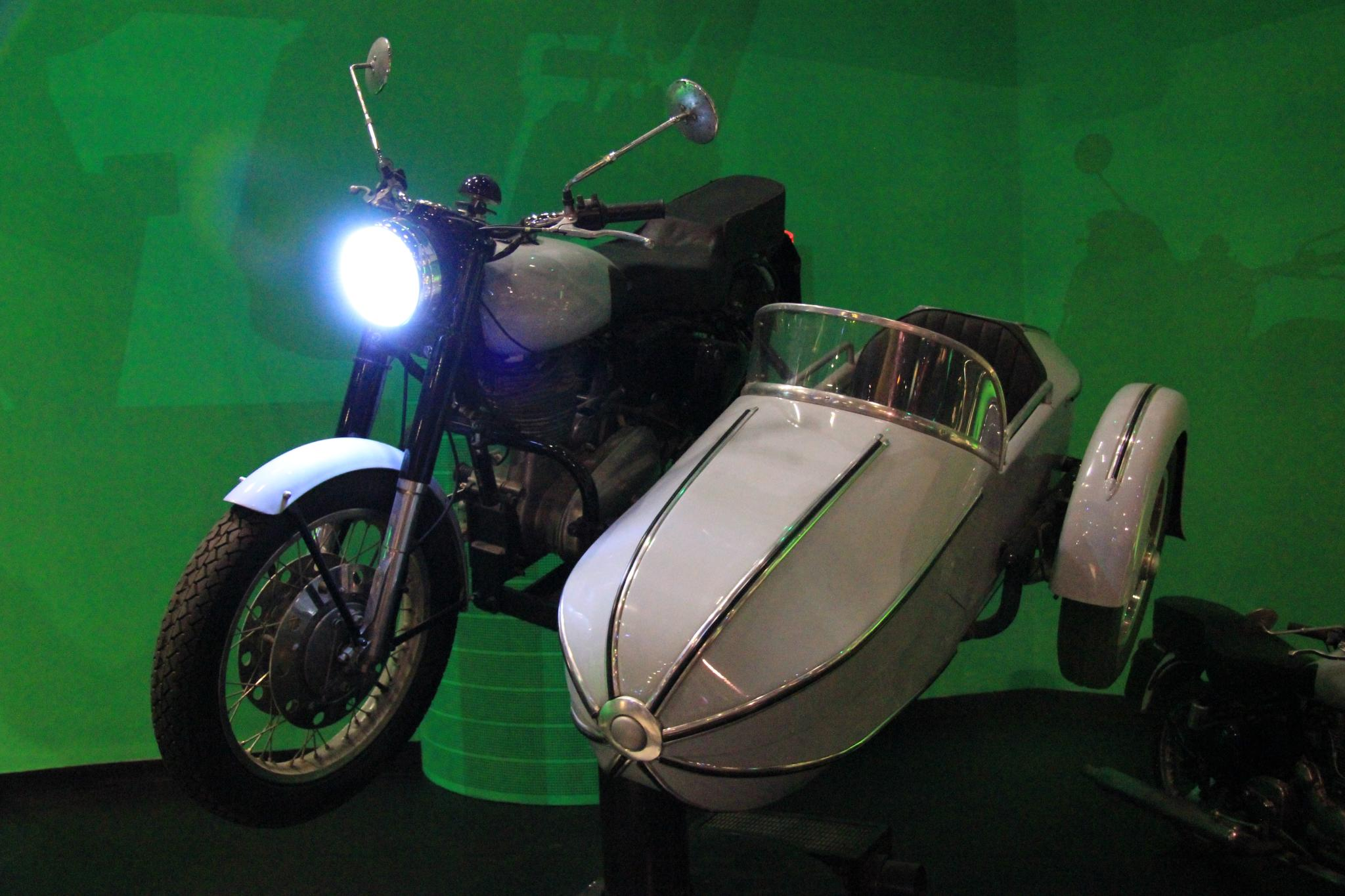 Warner Bros. Studio Tour London: The Making of Harry Potter.